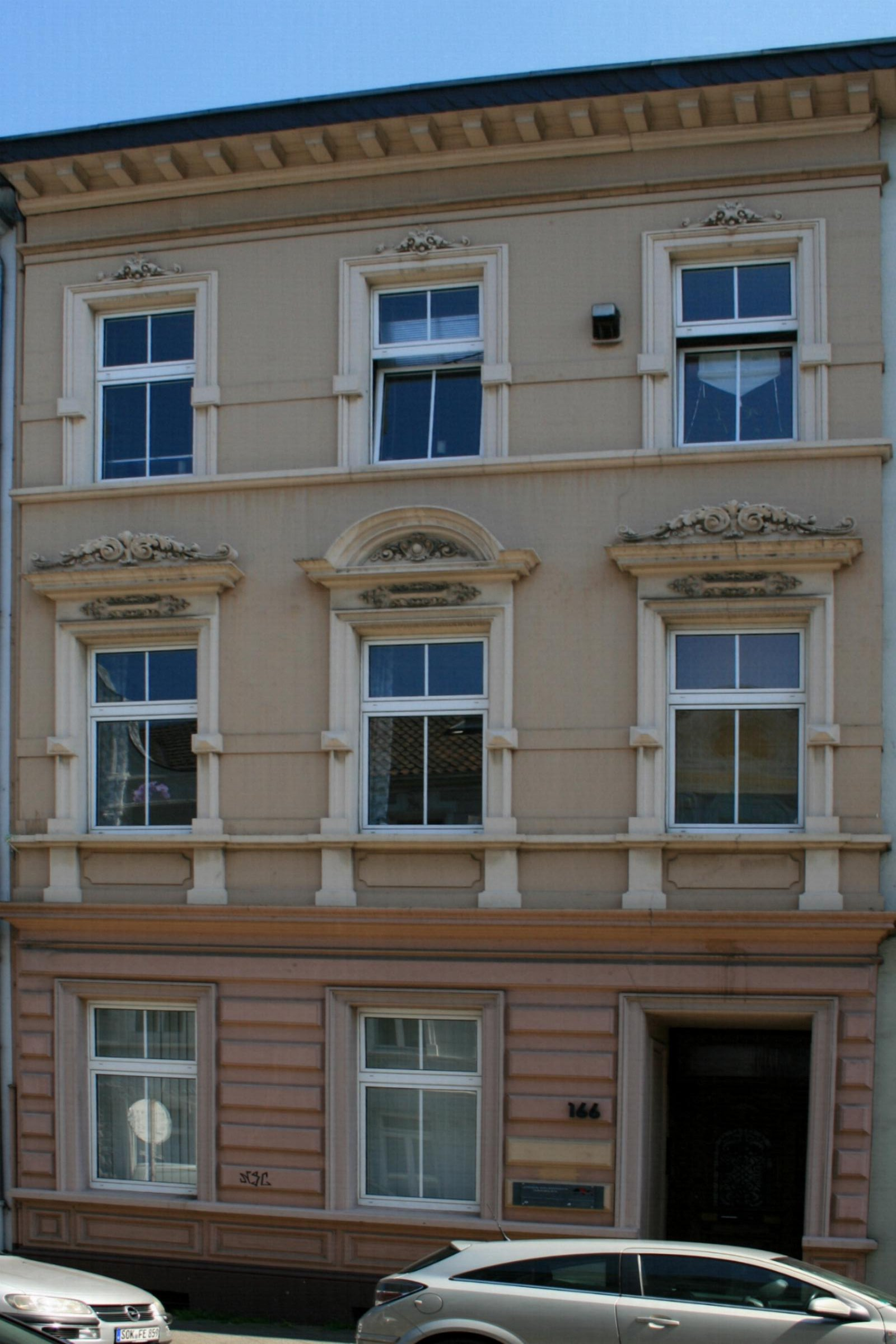 Cultural heritage monument No. R 070 in Mönchengladbach